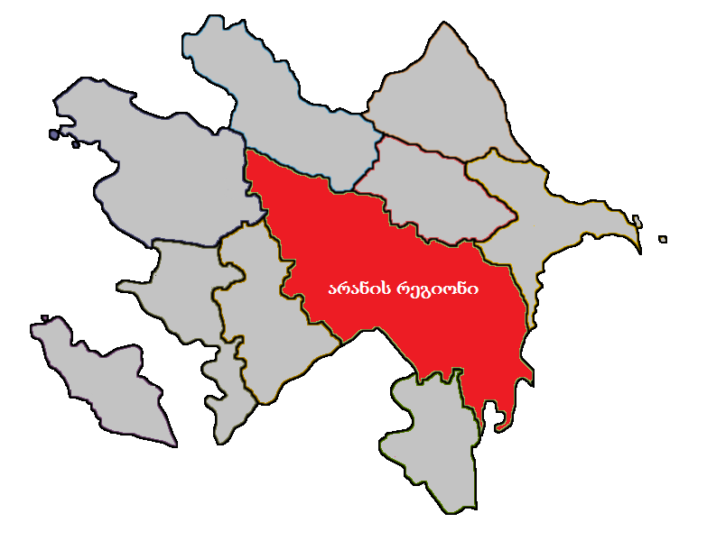 Aran region.